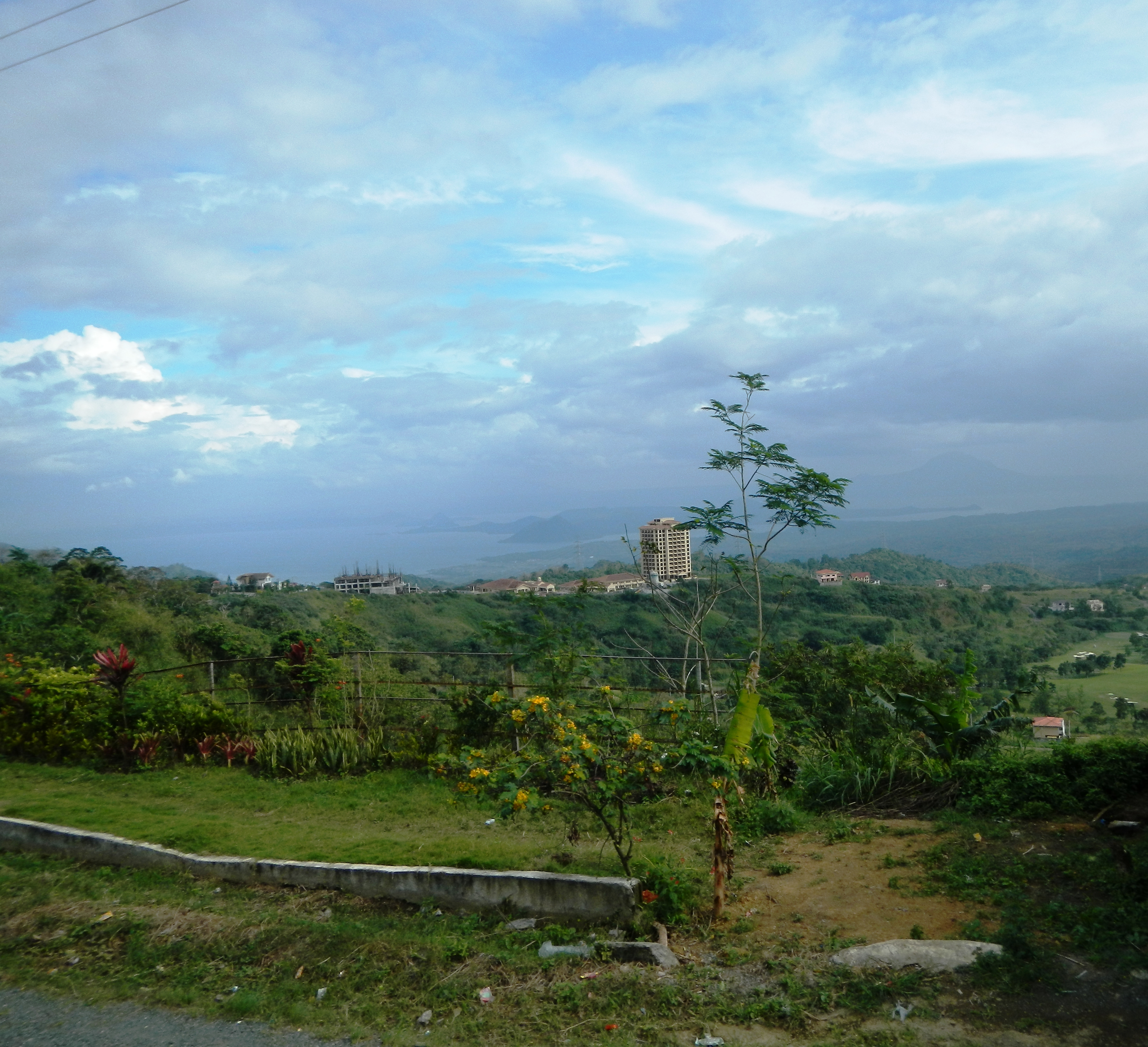 Upload Wizard photos of - Nasugbu, Batangas[1] - Aguinaldo Highway[2] passing a) Imus, Cavite[3] - Robinsons Place Imus, Shopwise, Savemore Supermarket, The District Ayala Mall - Metro Department Store Supermarket Asian Institute of Computer Studies WalterMart to Olivarez Mall in b) Tagaytay City, Cavite, Puregold Supermarket of Tagaytay, Ninoy Aquino statue in the Circle of Tagaytay Ridge, Days Hotel, to c) Barangay Nyugan, Laurel, Batangas, towards the Welcome Arch of d) Nasugbu, Batangas[4] - Batulao Village the scenery along the National Highway towards the Town Proper of Nasugbu, Batangas.